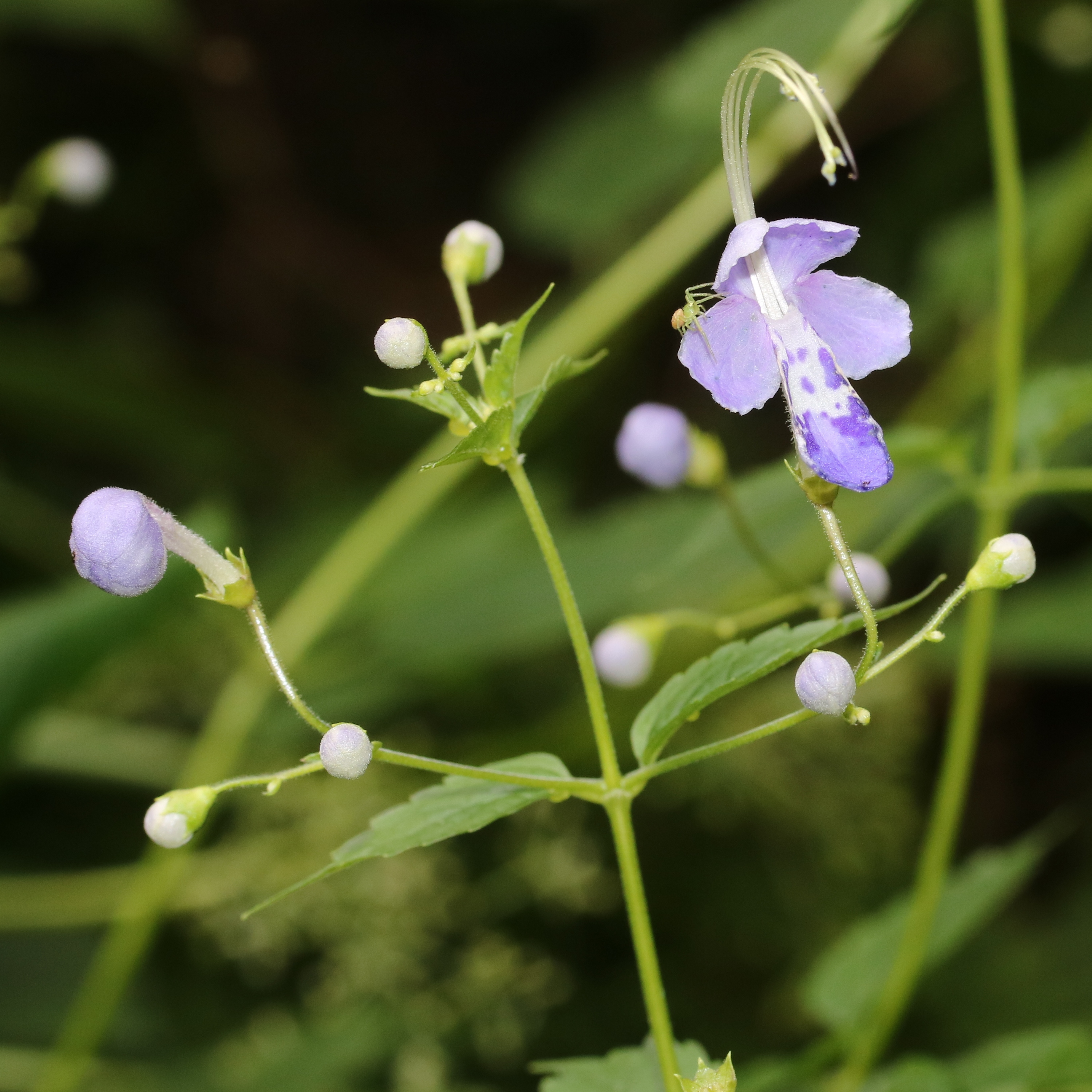 Tripora divaricata in Mount Yokoyama, Nagahama, Shiga prefecture, Japan.